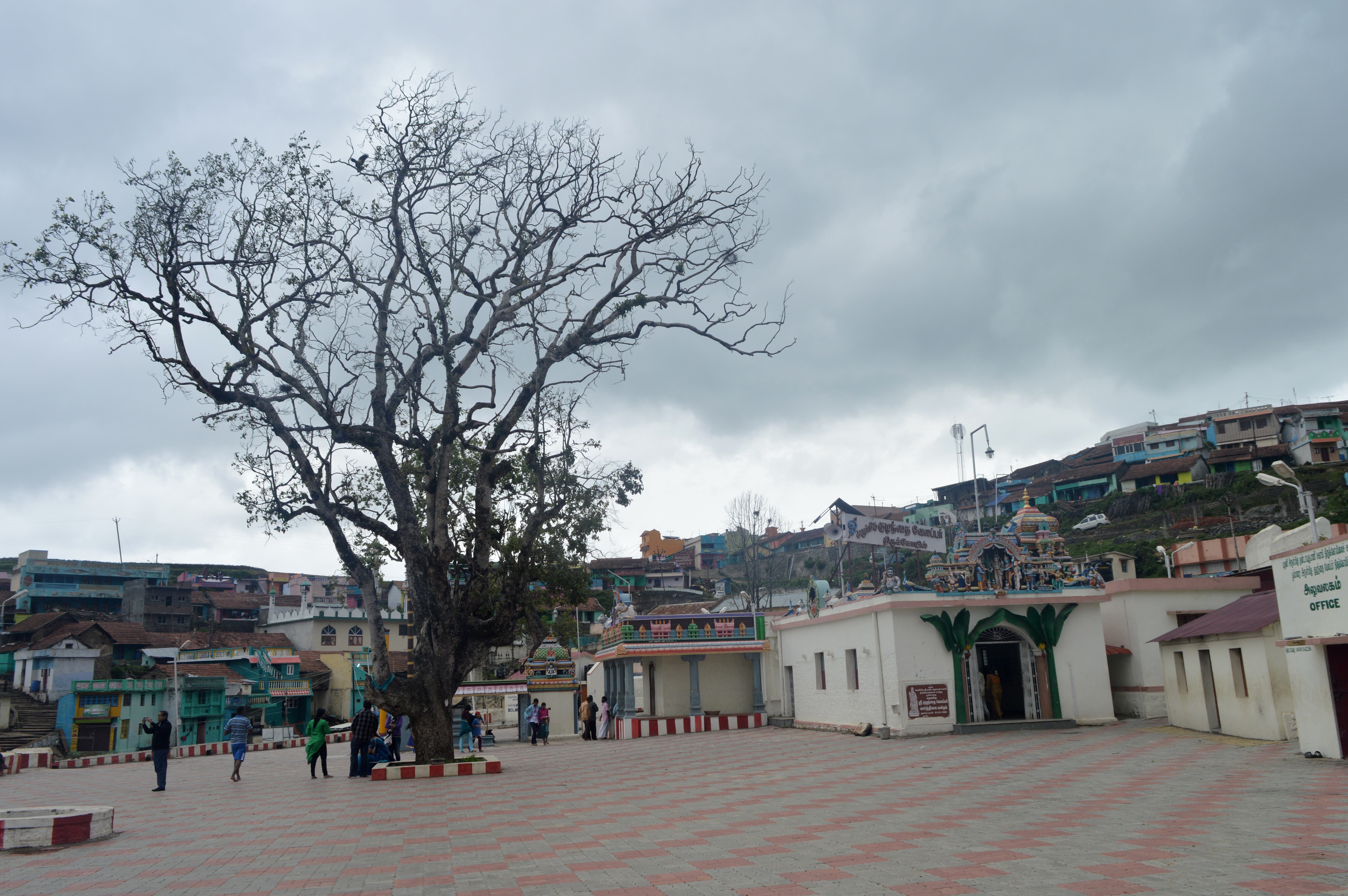 The Kuzhanthai Velappar Temple (Kulandai Velayudha Swami Tirukkovil)has three thousand years of history and was consecrated by his holiness Bhogar. The idol is made of Dasabashanam. This temple located in Poombarai Village 18 kilometers (11 mi) from Kodaikanal.